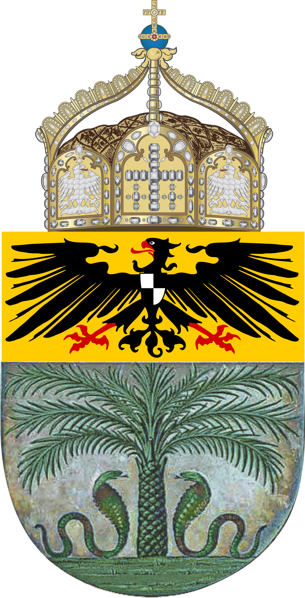 Proposed Coat of Arms for German Togo, 1914